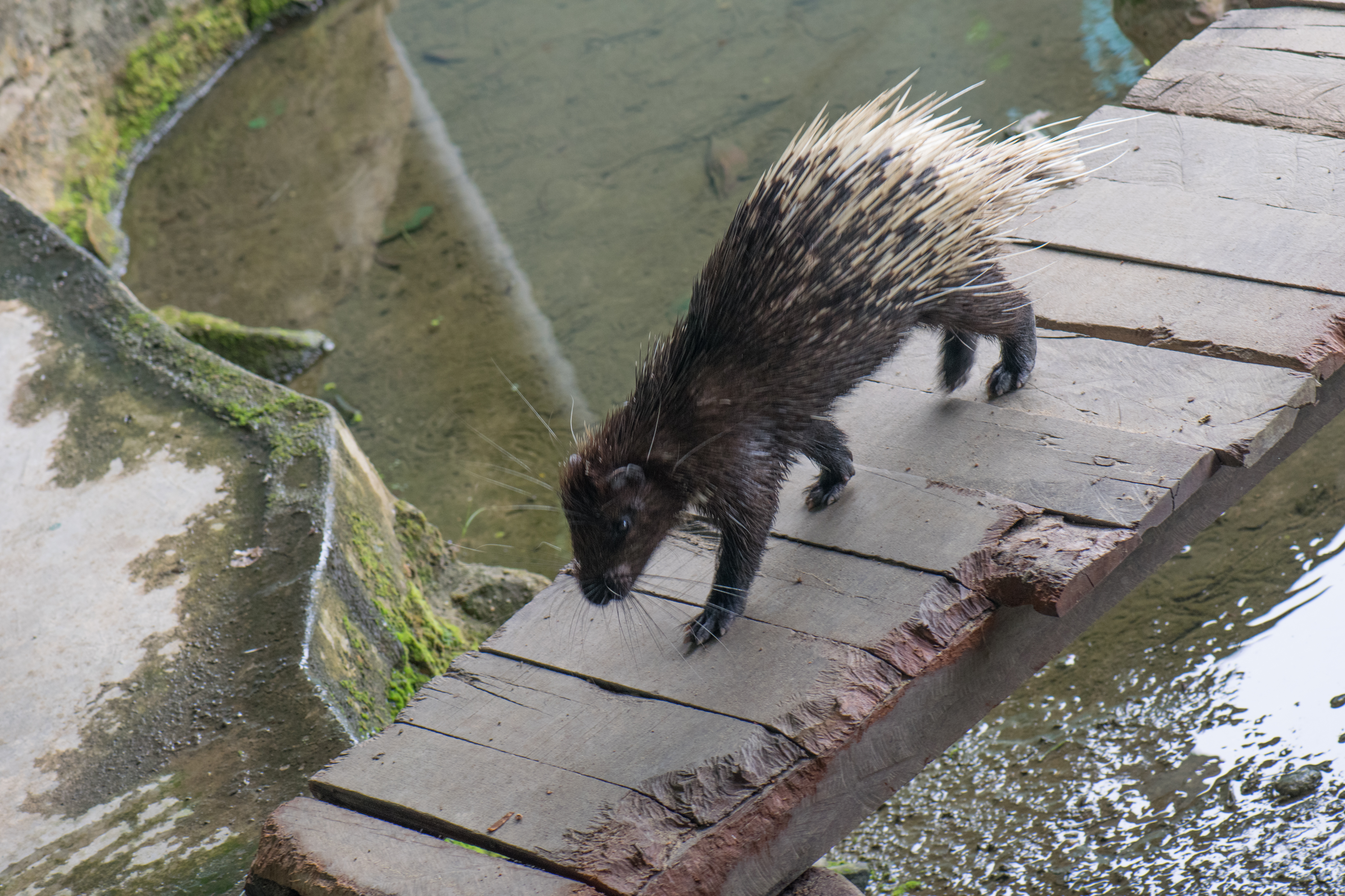 Jong's Crocodile Farm, Sarawak, Borneo, Malaysia